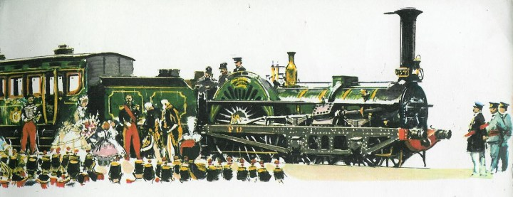 Imperial train; locomotive Crampton PLM n° 137; driving wheels diameter: 2.30 m